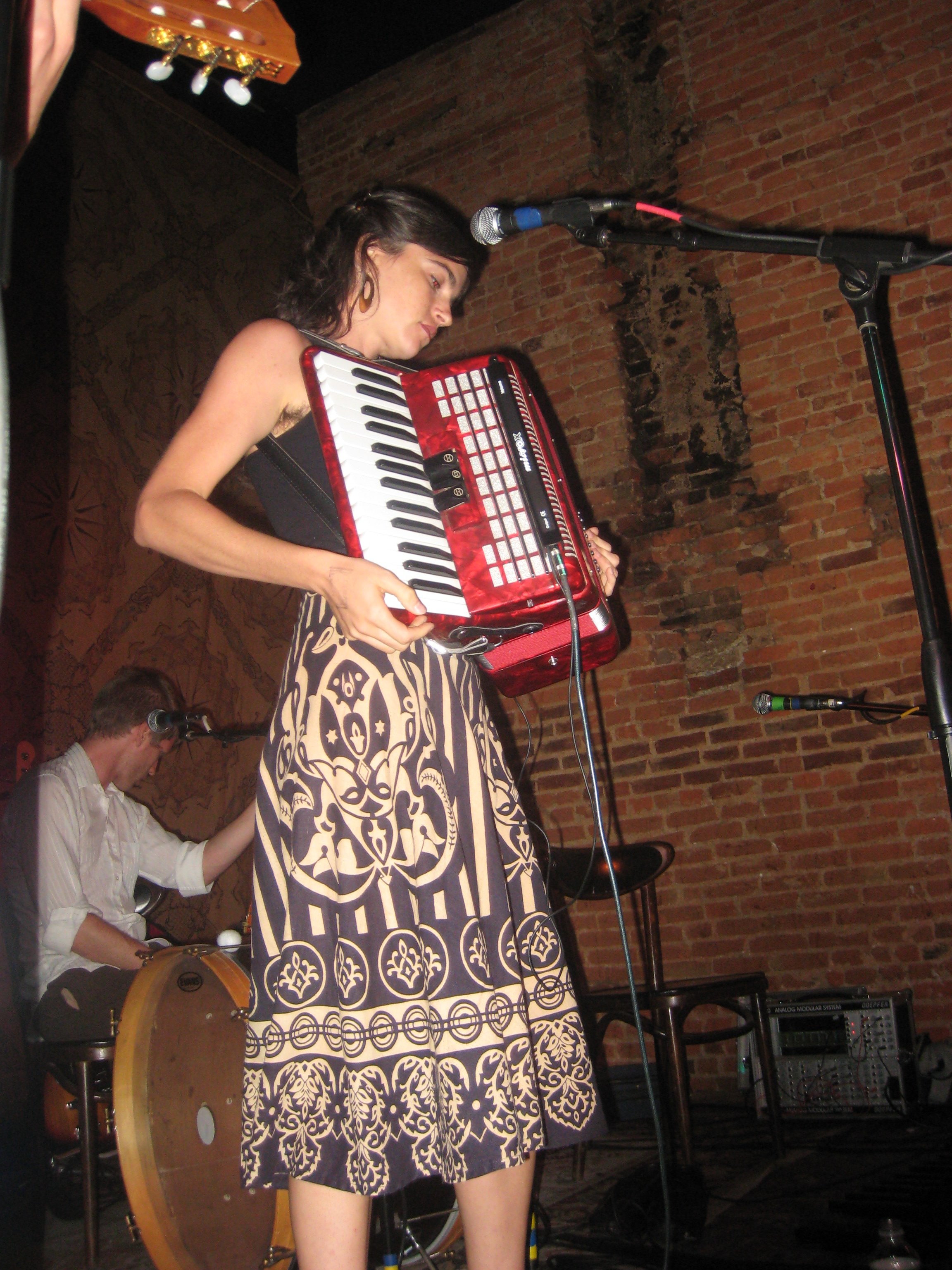 The Bowerbirds at the Northstar Bar in Philadelphia